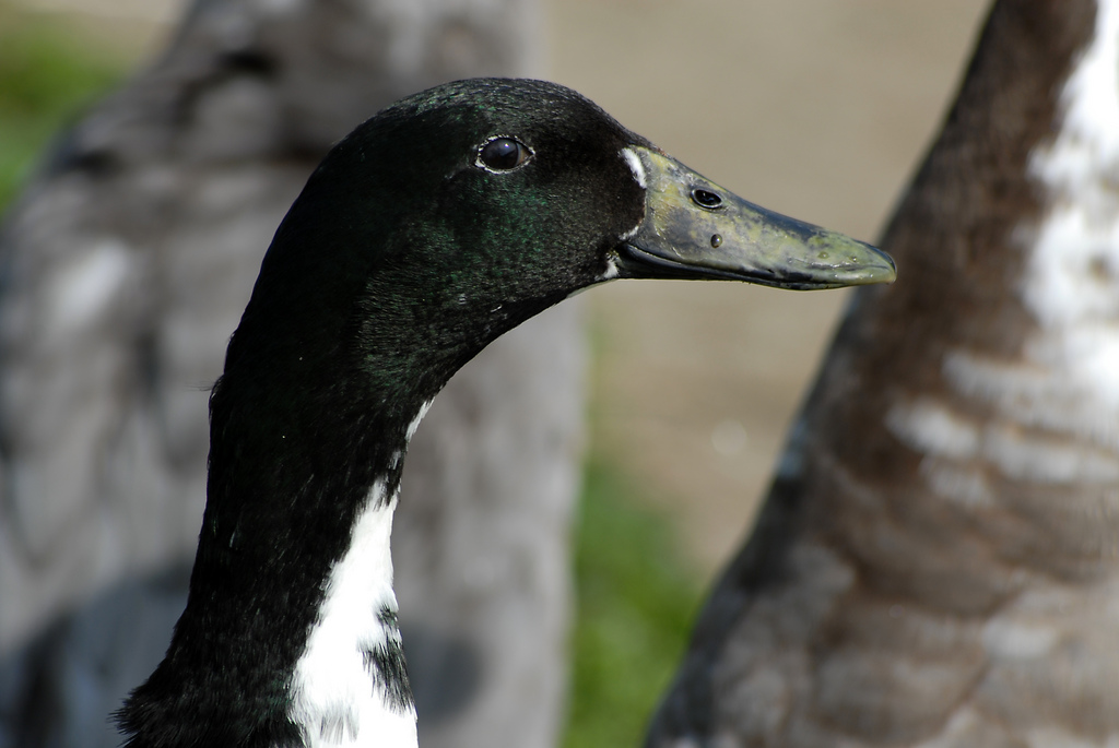 Indian Runner spotted at Sutton Bingham, not quite what I was expecting to find!